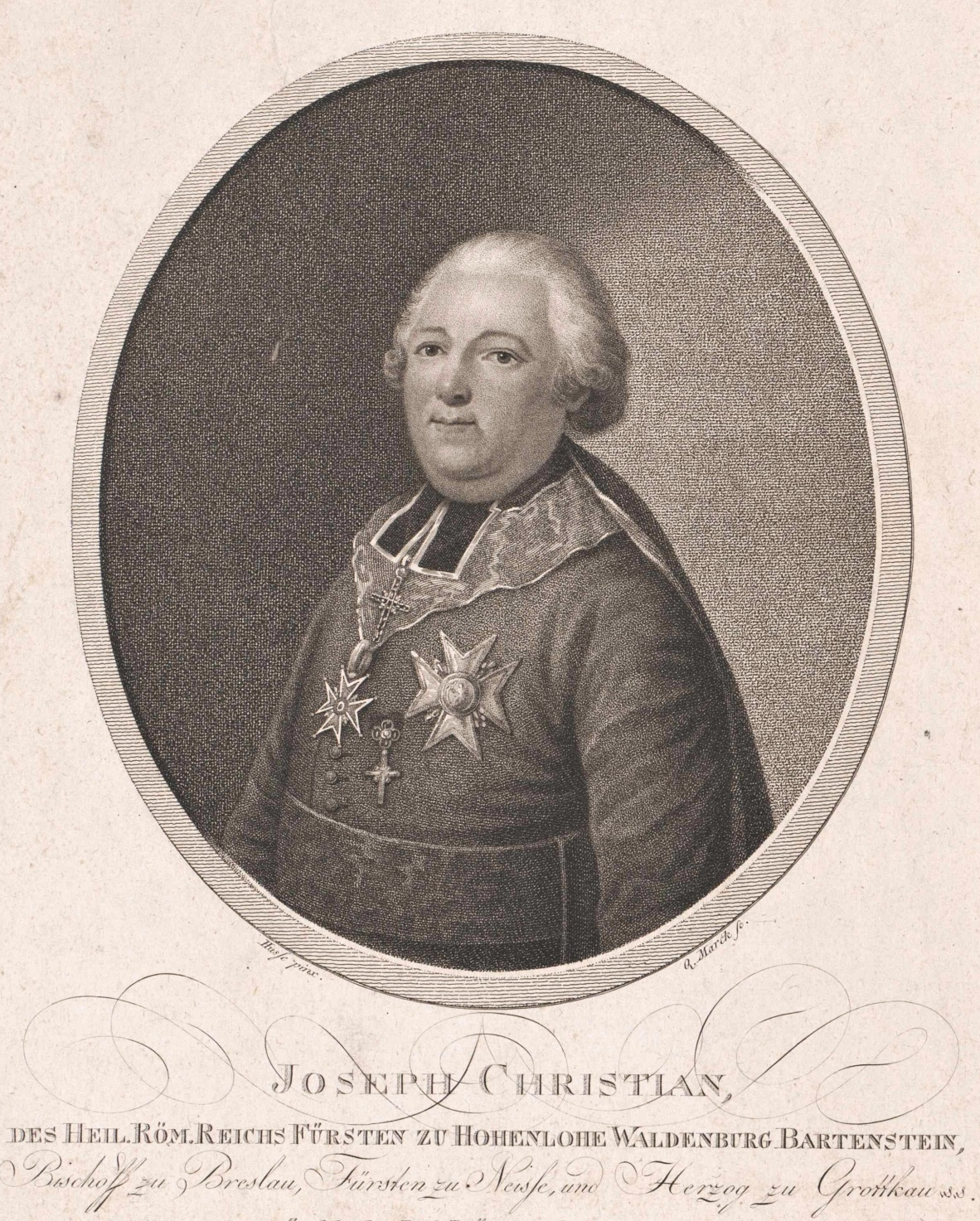 Joseph Christian Franz zu Hohenlohe-Waldenburg-Bartenstein (1740-1817), Fürstbischof von Breslau